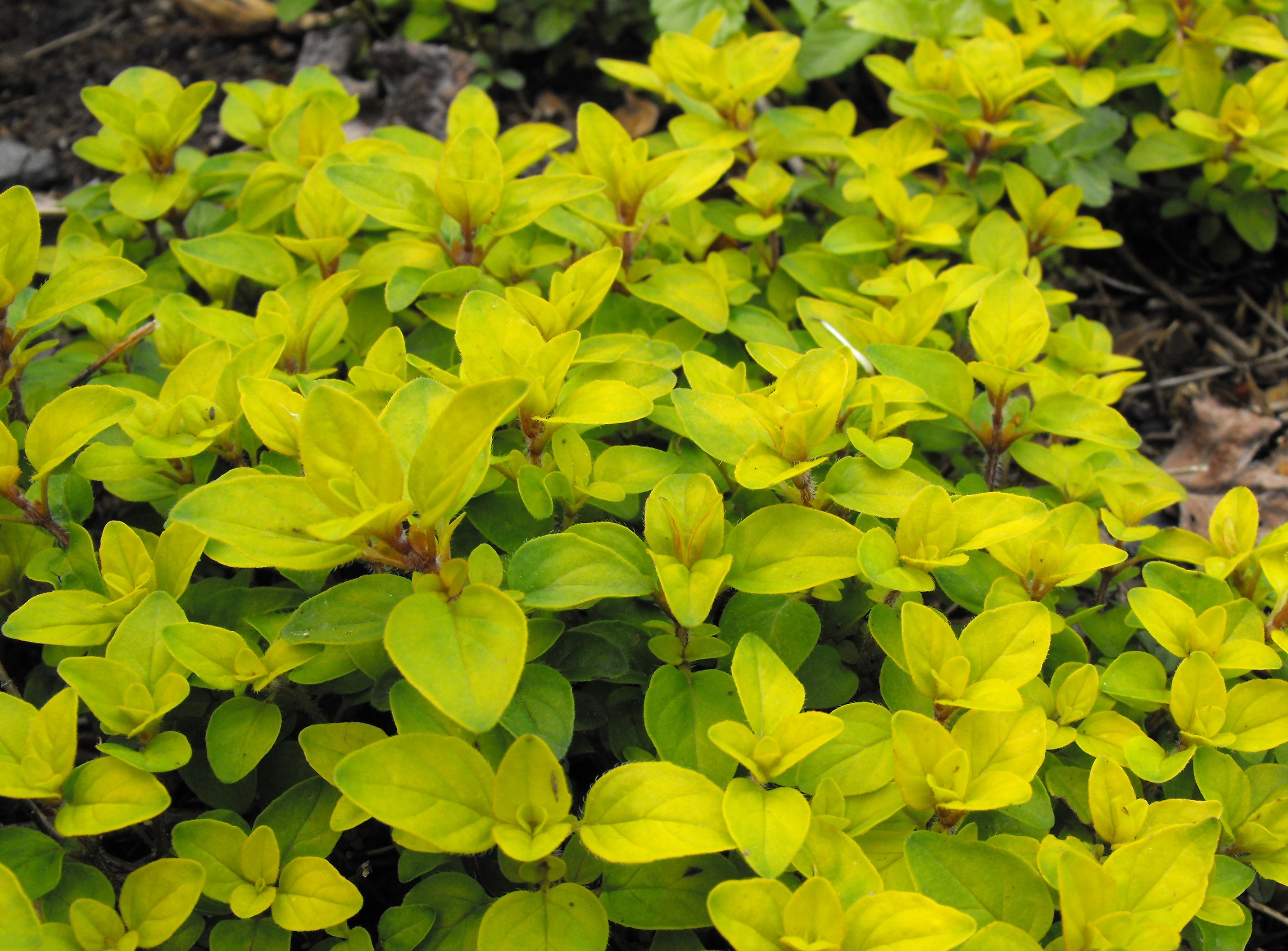 Origanum vulgare cv. 'Norton's Gold' at the UC Berkeley Botanical Garden, California, USA. Identified by sign.